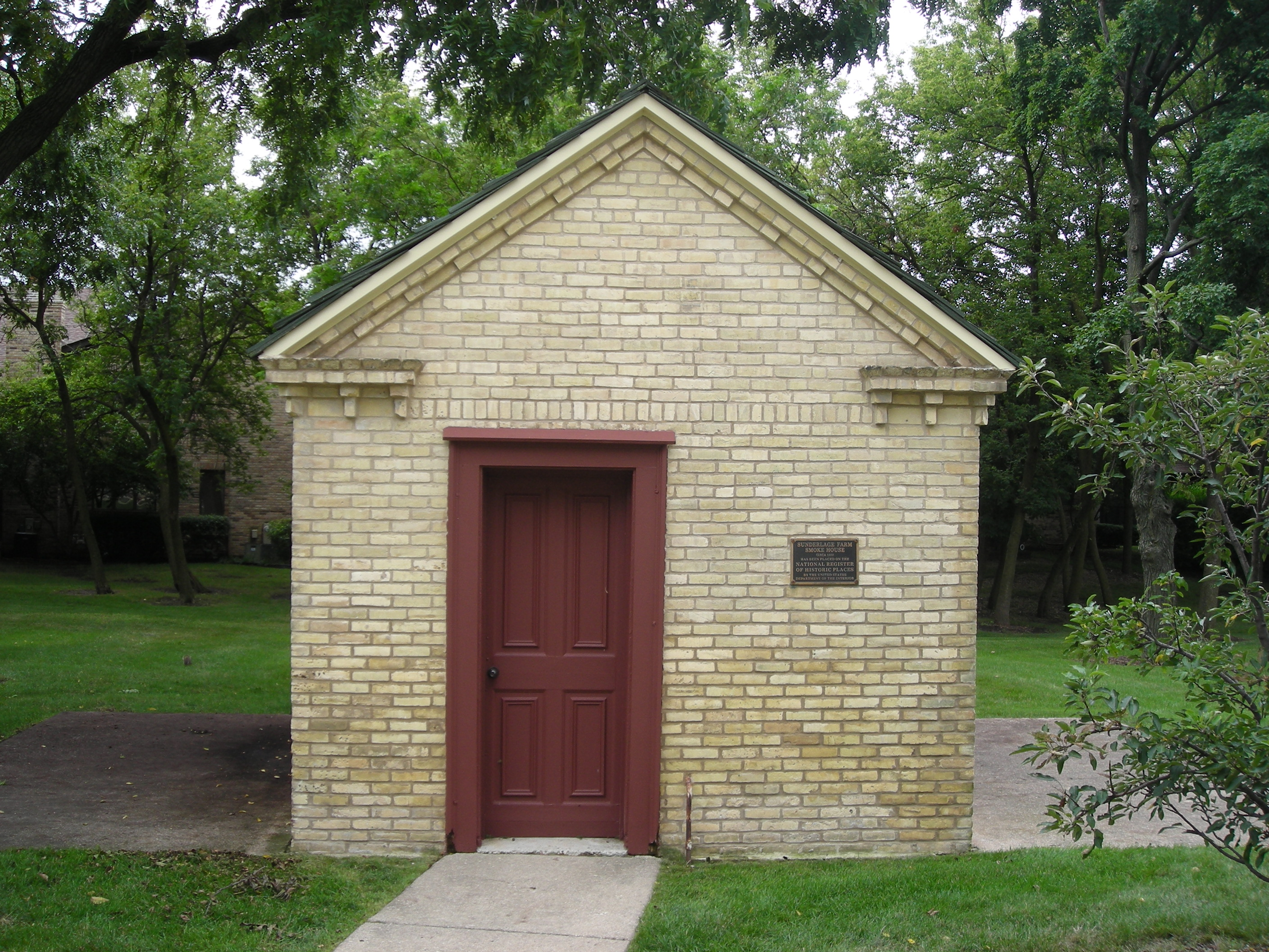 Sunderlage Farm Smokehouse. Hoffman Estates, IL. National Register of Historic Places.